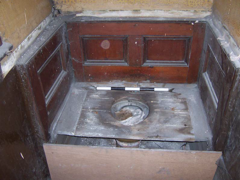 Historical building